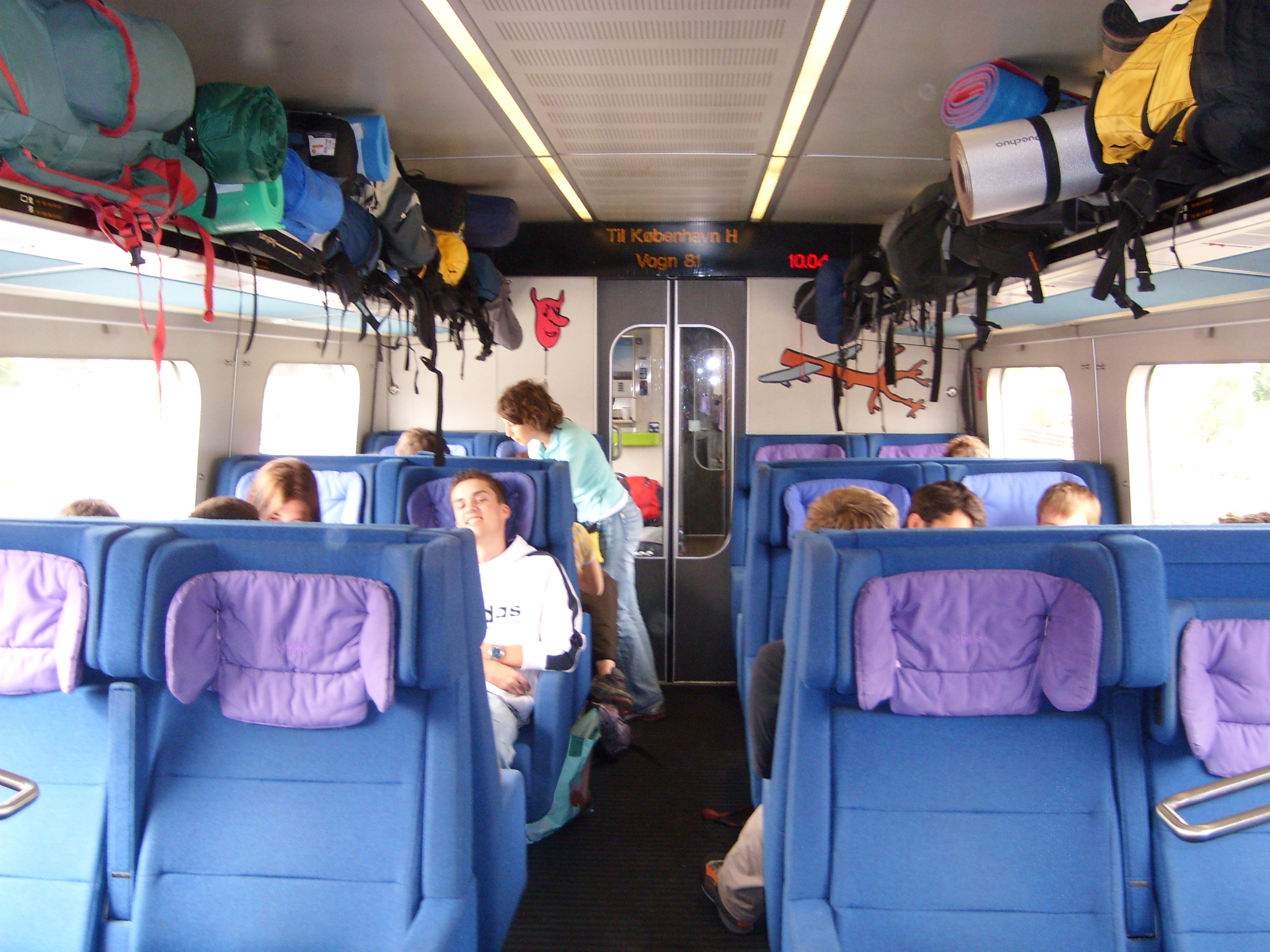 IC3 of the Danish national railway - Interior